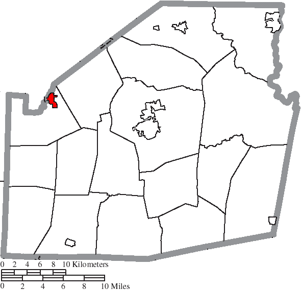 Map of the municipal and township boundaries of Highland County, Ohio, United States, as of the 2000 census, with the location of the village of Lynchburg highlighted. Township borders are shown only in unincorporated areas in order to differentiate incorporated and unincorporated areas more clearly.